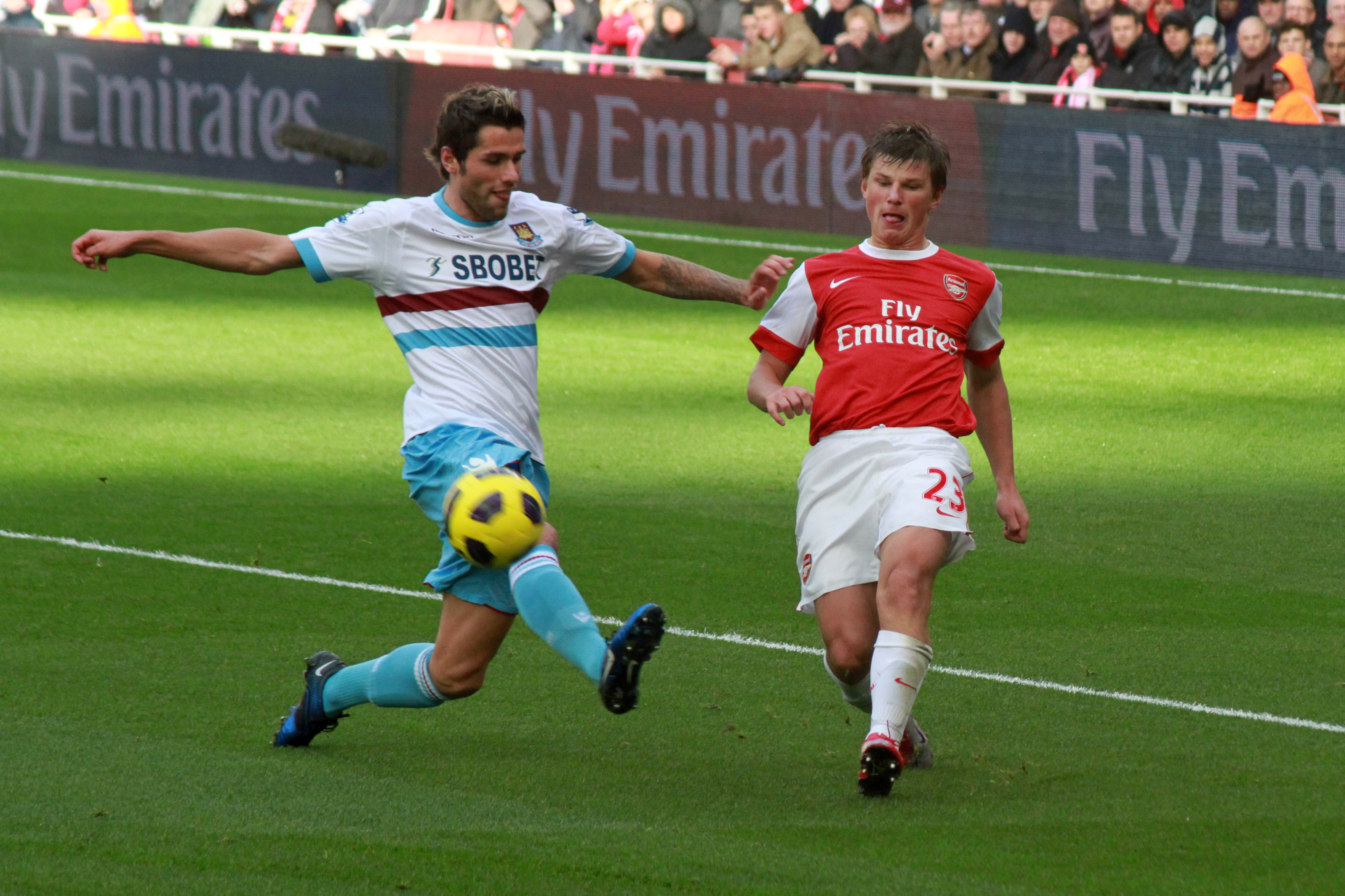 Arsenal v West Ham United at the Emirates Stadium on 30 October 2010. Arsenal won 1-0 with a late 88minute goal by Alex Song.